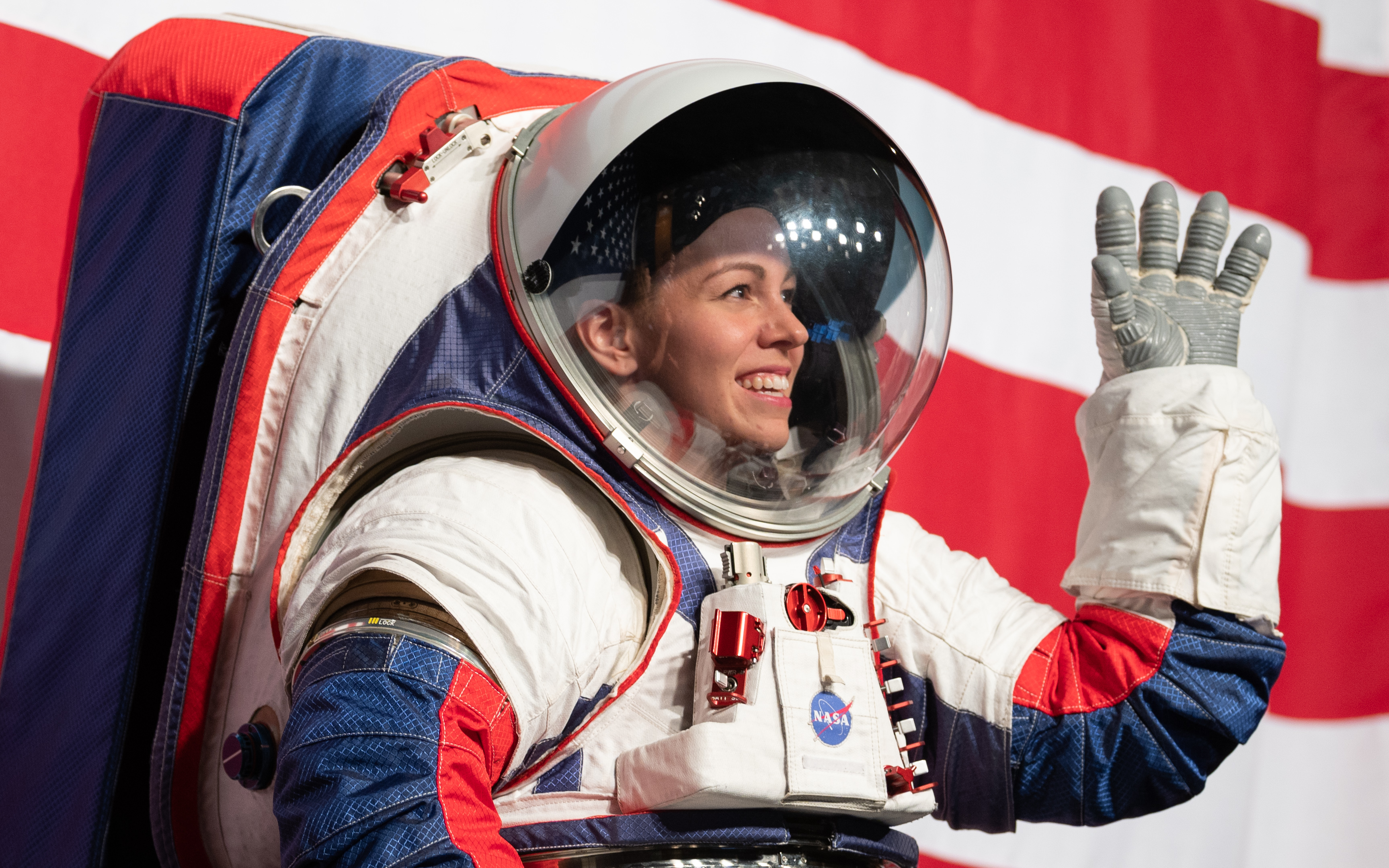 Kristine Davis, a spacesuit engineer at NASA’s Johnson Space Center, wearing a ground prototype of NASA’s new Exploration Extravehicular Mobility Unit (xEMU), is seen during a demonstration of the suit, Tuesday, Oct. 15, 2019 at NASA Headquarters in Washington. The xEMU suit improves on the suits previous worn on the Moon during the Apollo era and those currently in use for spacewalks outside the International Space Station and will be worn by first woman and next man as they explore the Moon as part of the agency’s Artemis program. Photo Credit: (NASA/Joel Kowsky)